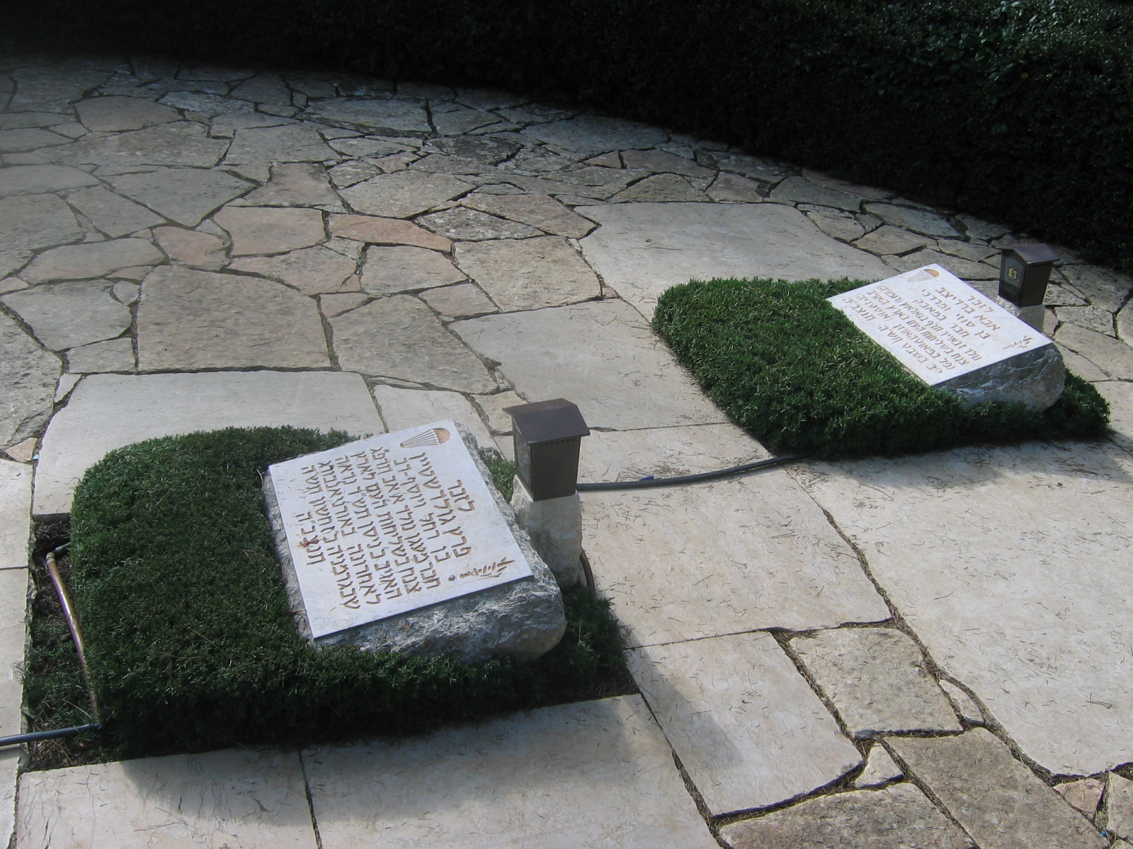 Memorial for the Jewish paratroopers whose mission was to rescue European Jews from the Holocaust